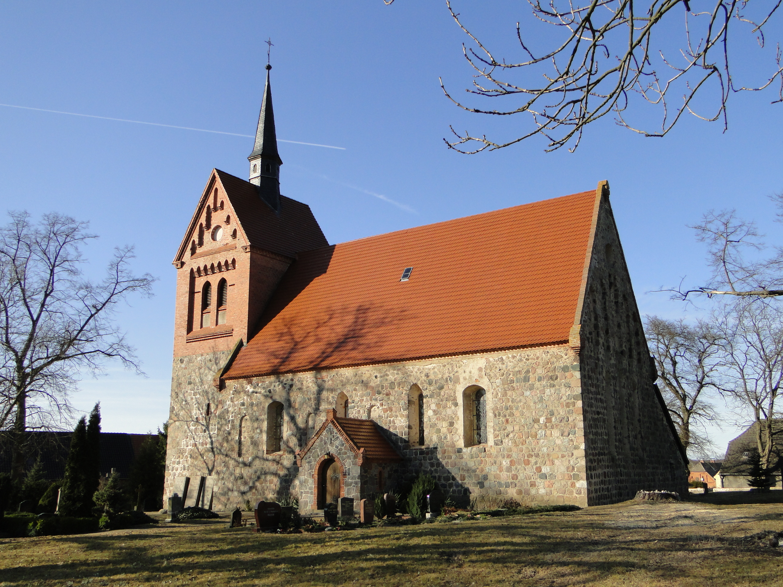 Church in Bredenfelde, district Mecklenburg-Strelitz, Mecklenburg-Vorpommern, Germany